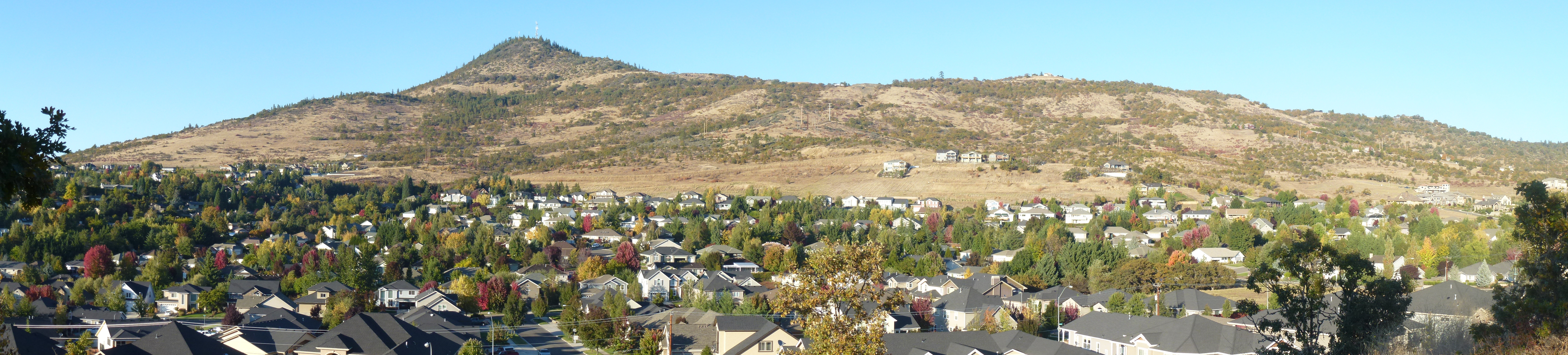 A panorama of Roxy Ann Peak and the housing developments on its southern slopes.